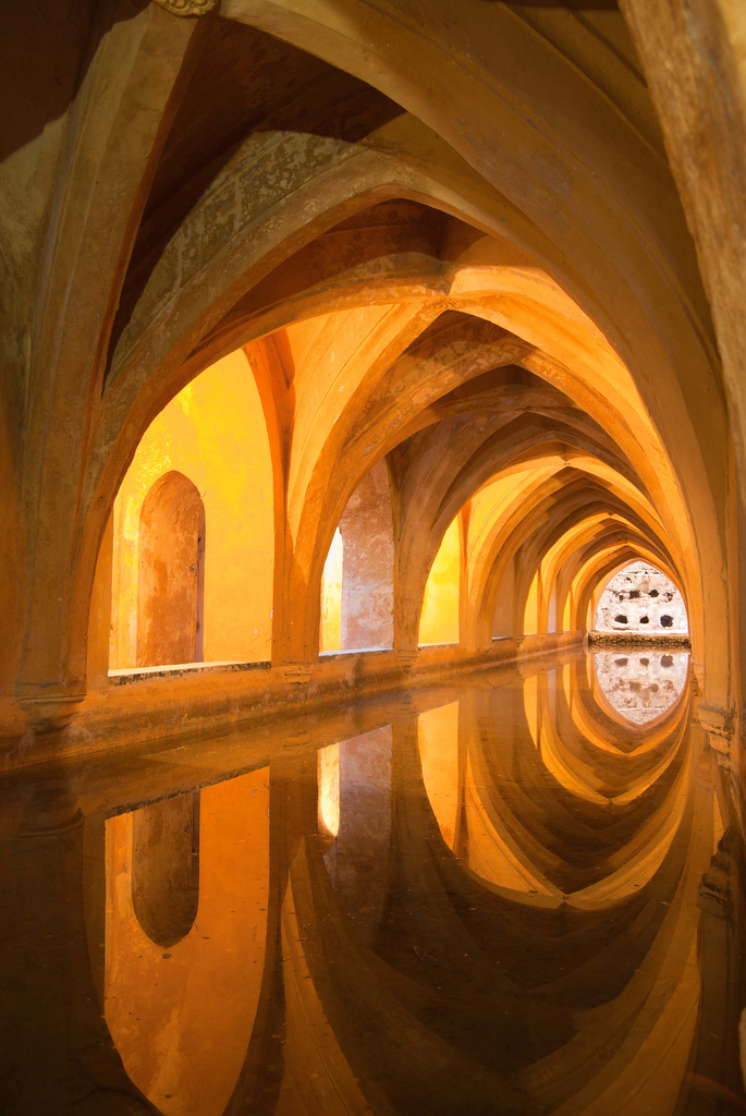 Baths of Lady María de Padilla, Alcázar of Seville